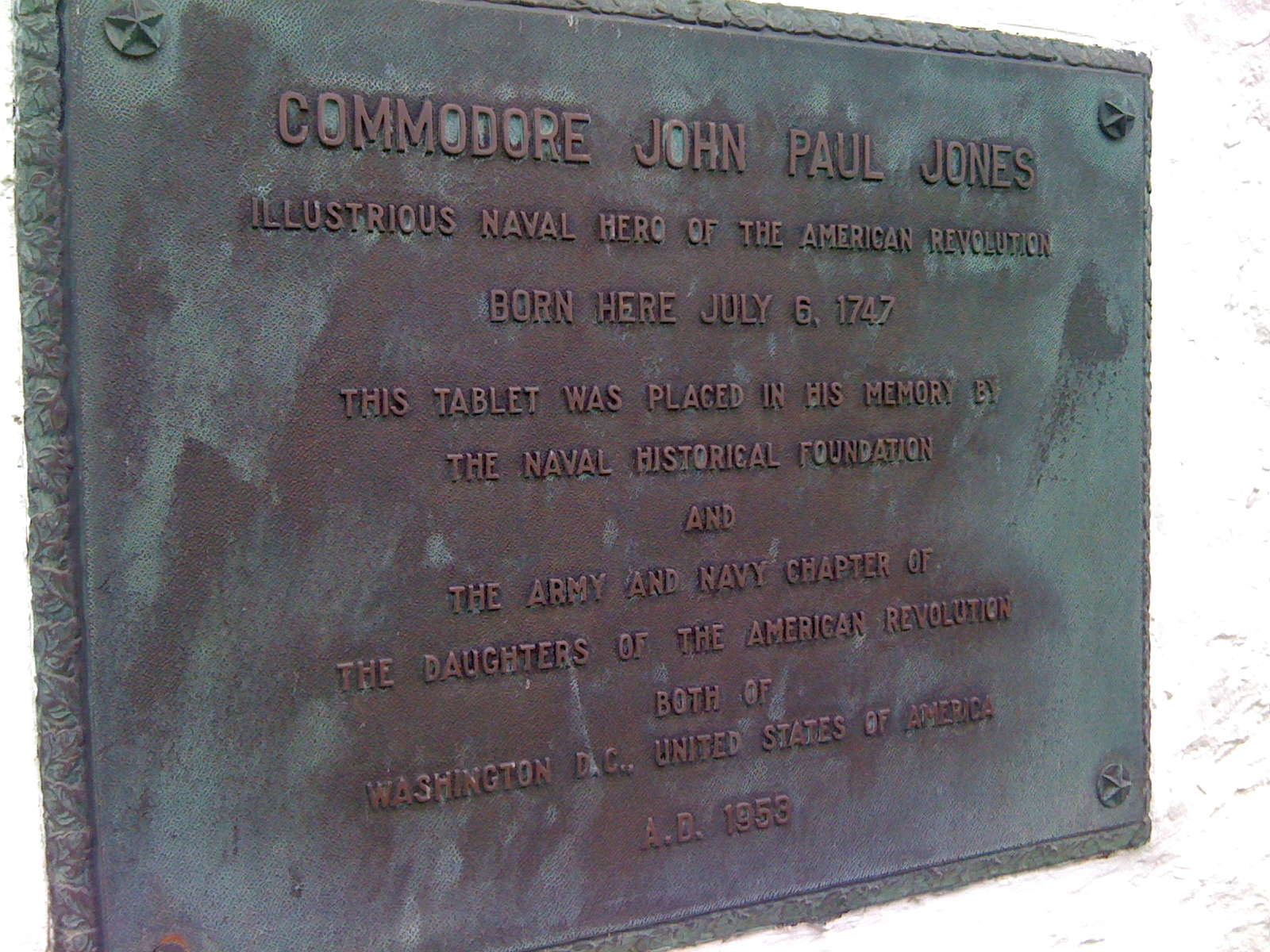 John Paul Jones.